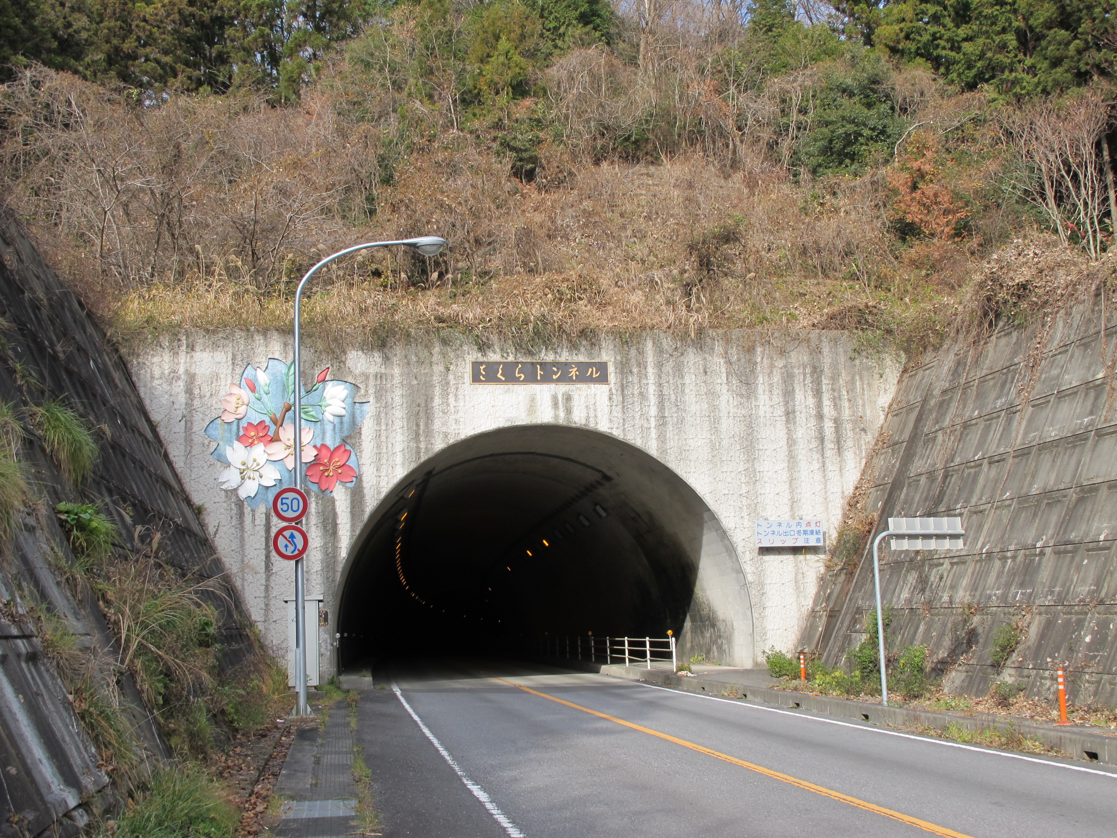 Sakura Tunnel on the Ibaraki Prefectural Road Route 39